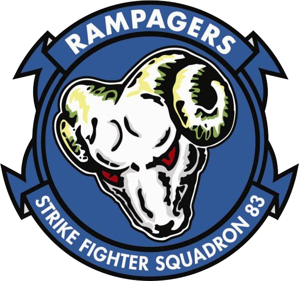 Insignia of the U.S. Navy Strike Fighter Squadron 83 (VFA-83) "Rampagers".